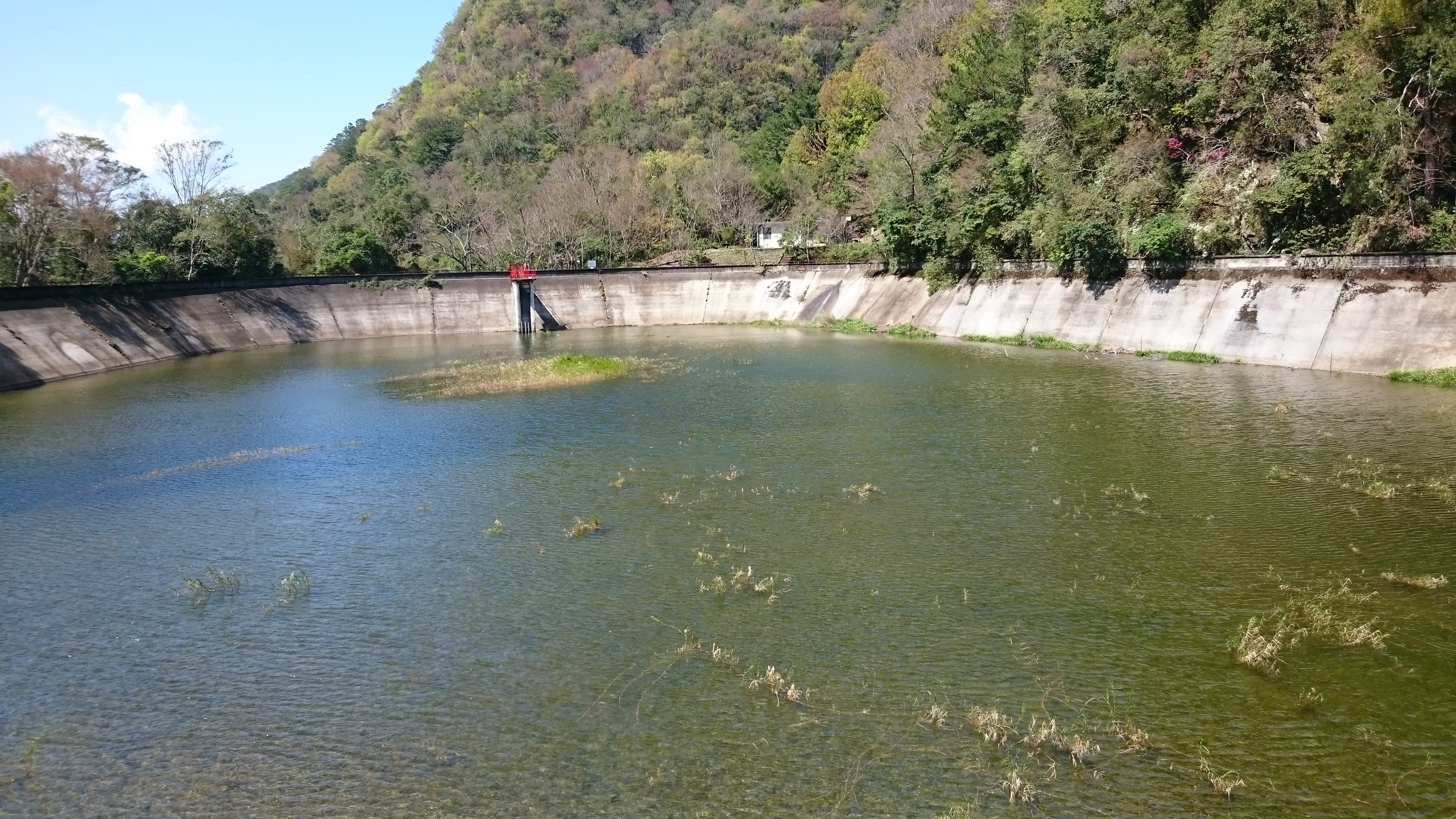 Retention basin of wanda plant